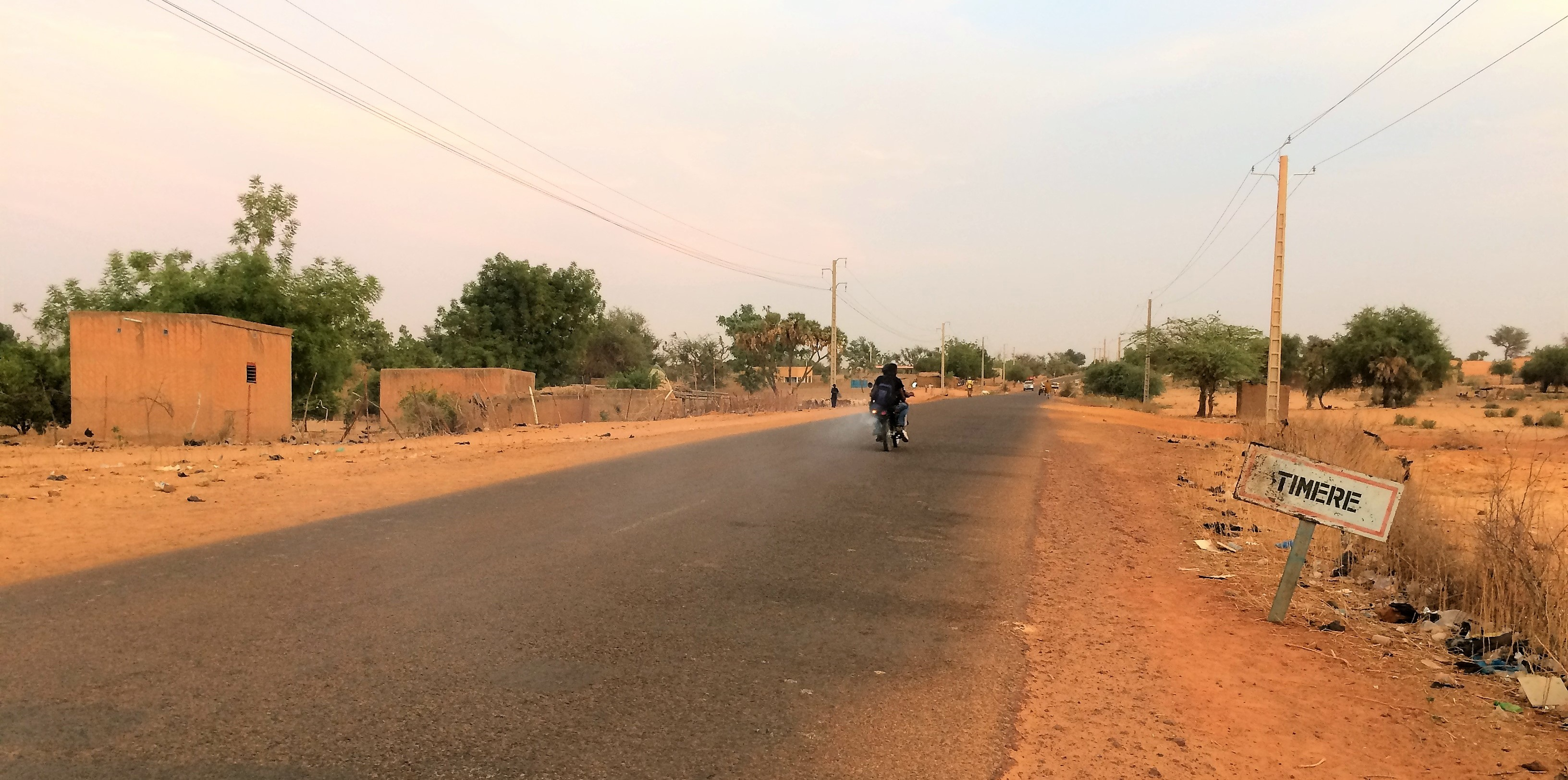 A moped entering Timéré on the N27, a village just outside Niamey (Niger) and part of the commune No.5 of the city of Niamey.